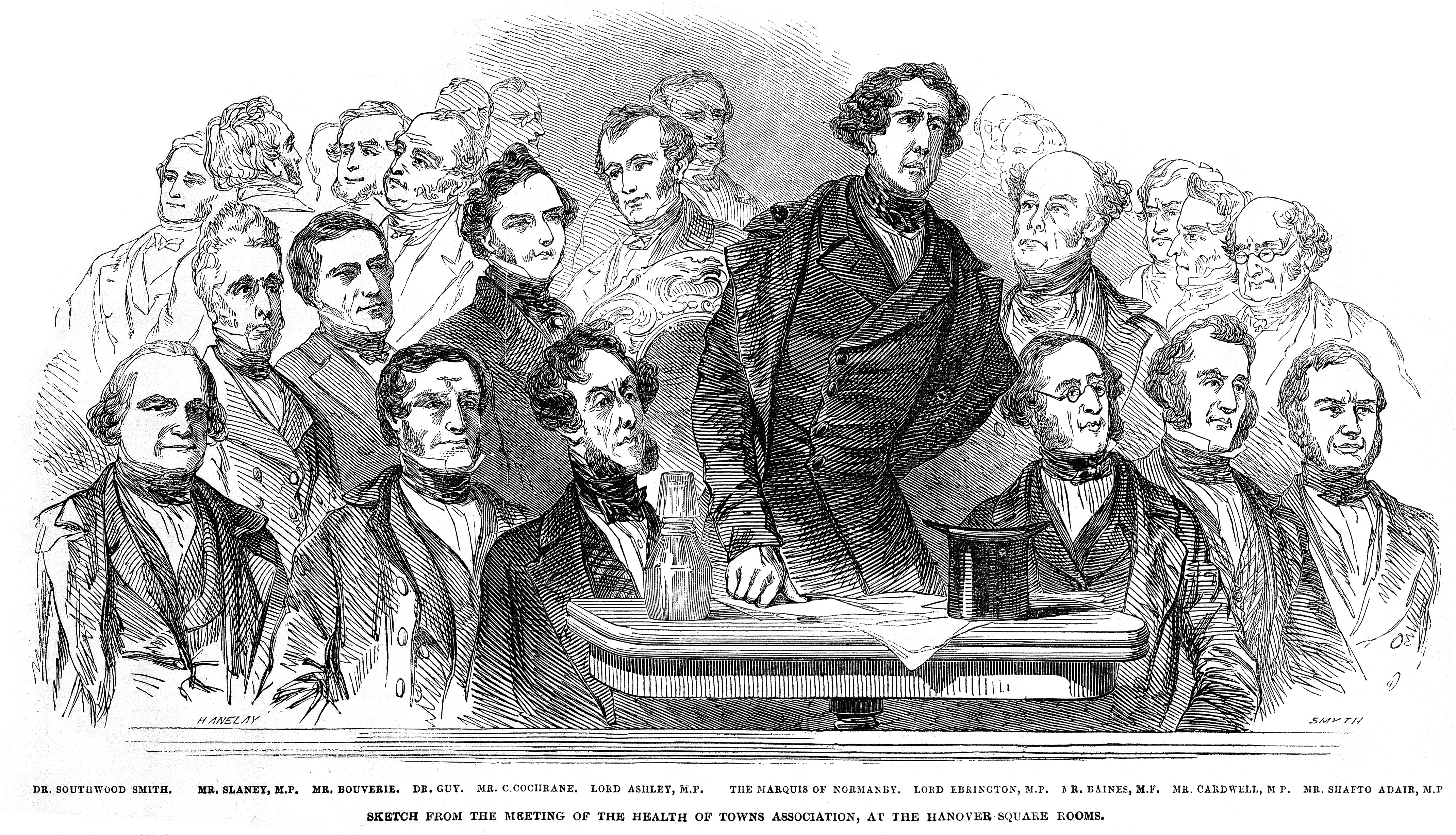 Health of Towns Association Meeting, 1847. Iconographic Collections Keywords: health of towns association; Medicine; Southwood Smith; Health of Towns Association (London, England); Henry Anelay; Smyth.